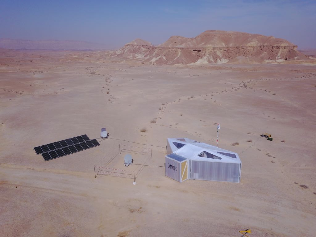 D-MARS01 habitat during the D-Mars analog Mars mission in the Ramon Crater. Israel, February 2018 Drone footage